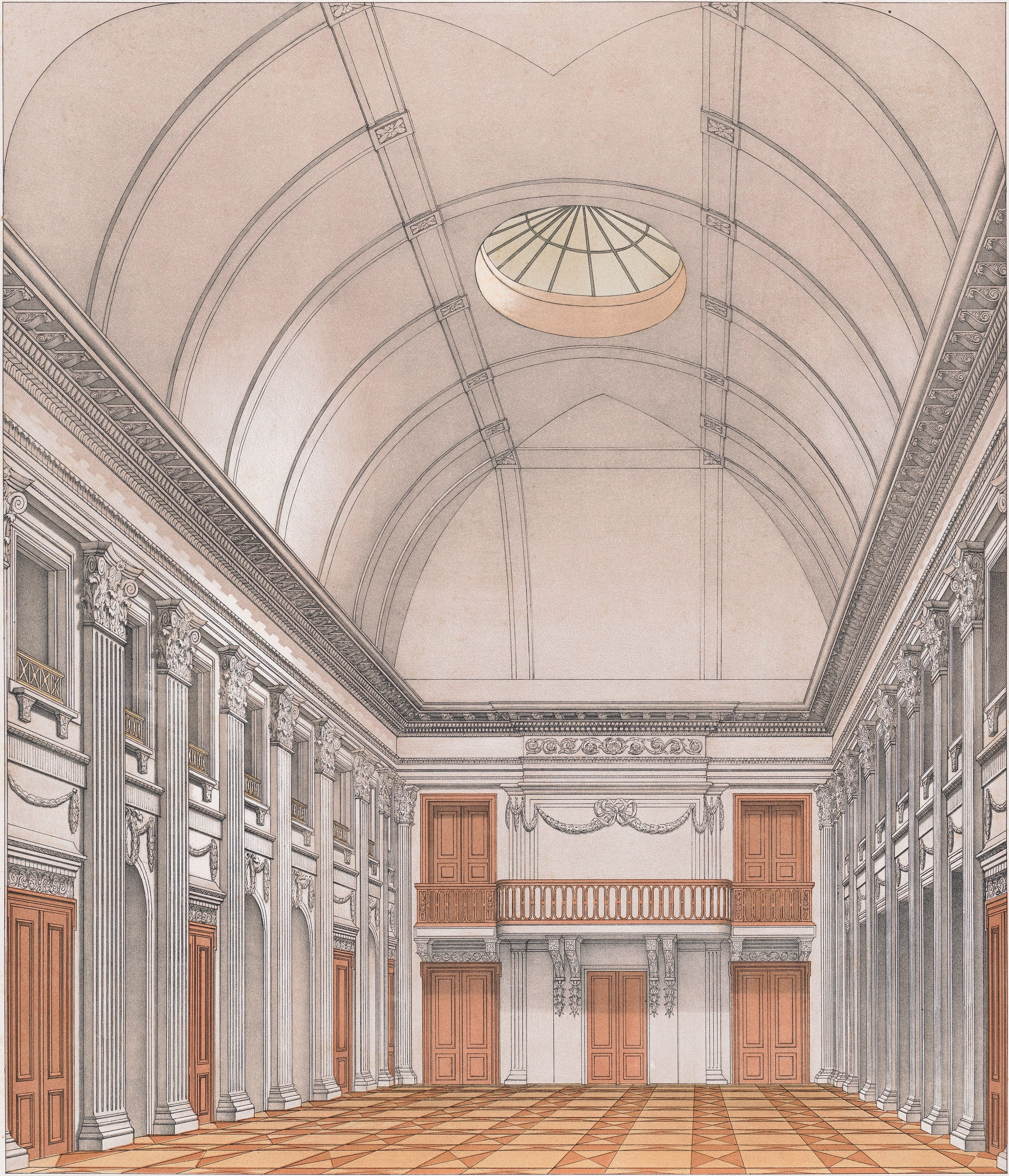 View of the interior of the Hall of the House of Representatives of the States General, at the Binnenhof in The Hague.